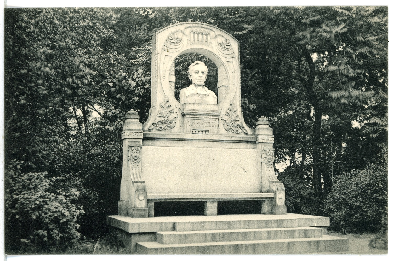 This postcard is from publisher Brück & Sohn in Meißen ( This postcard has a unique number 12874 and is available in a higher resolution at the publisher. This images was uploaded in a cooperation project between Wikipedians and the publisher.